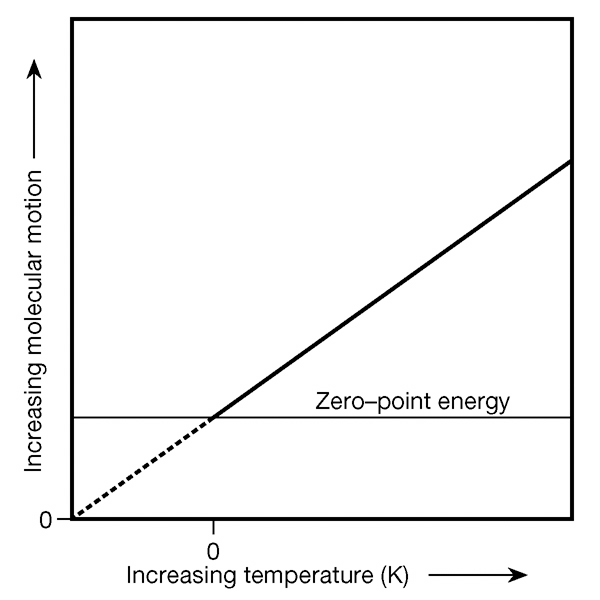 Relationship of molecular motion to absolute zero on the thermodynamic temperature scale.Even if scientists removed all the heat energy from matter that theoretically could be removed (absolute zero), the motion-inducing effect of quantum mechanical zero-point energy still remains. Since quantum mechanical zero-point energy is an intrinsic, all-pervasive phenomenon in all matter, absolute zero serves as the baseline atop which thermodynamics and its equations are founded. Greg L 13:45, 13 July 2006 (UTC)